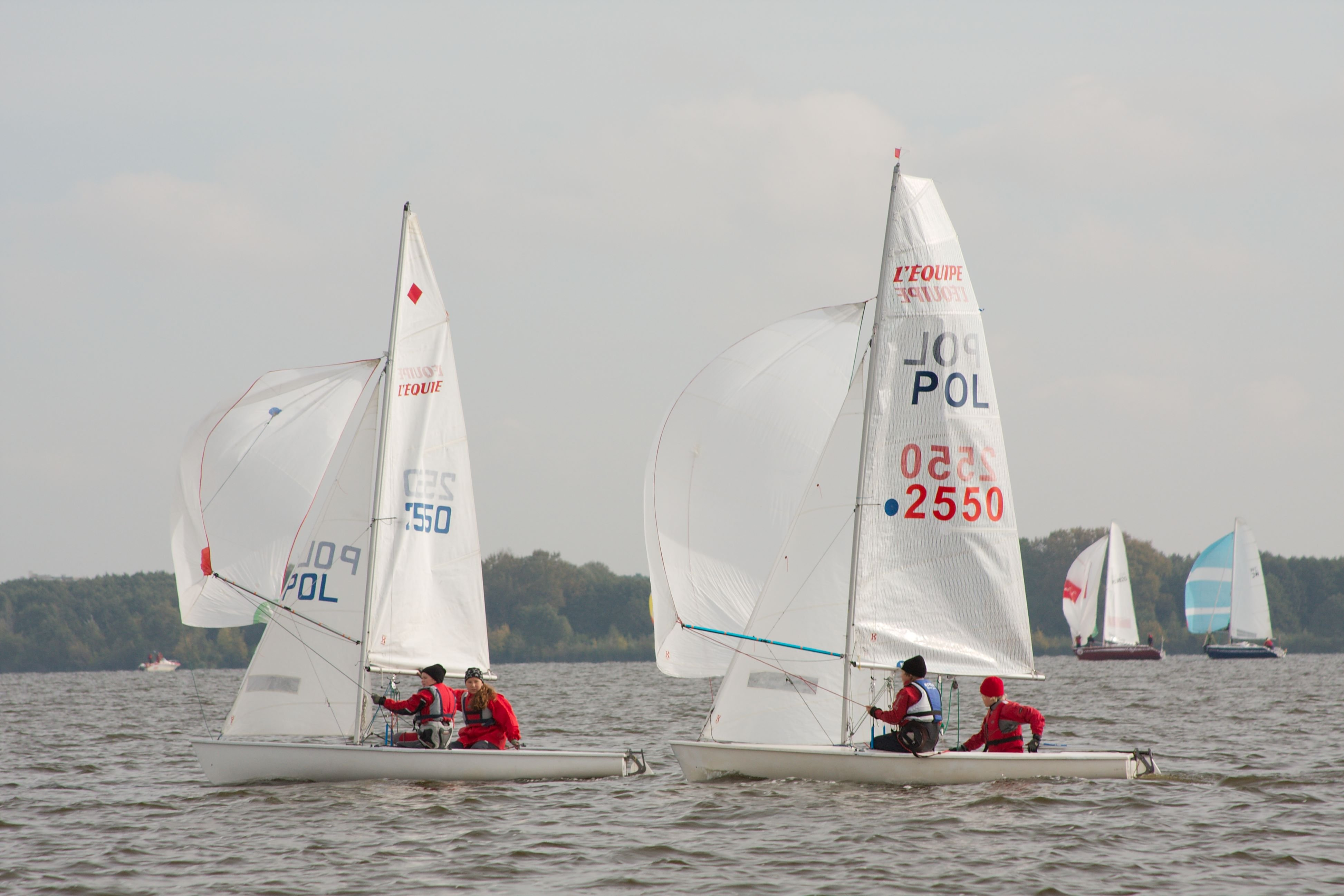 L'Équipe and L'Équipe evolution class dinghies, old (smoll) and new ( big) sails, regatta Zegrze lake (Poland)